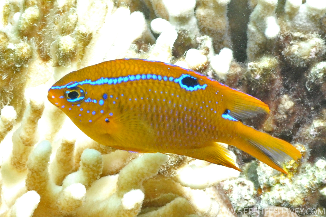 A juvenile Multispine Damsel, Neoglyphidodon polyacanthus, at Lord Howe Island, Tasman Sea, February 2010